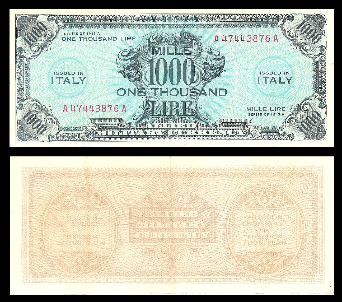 1000 Lire AM